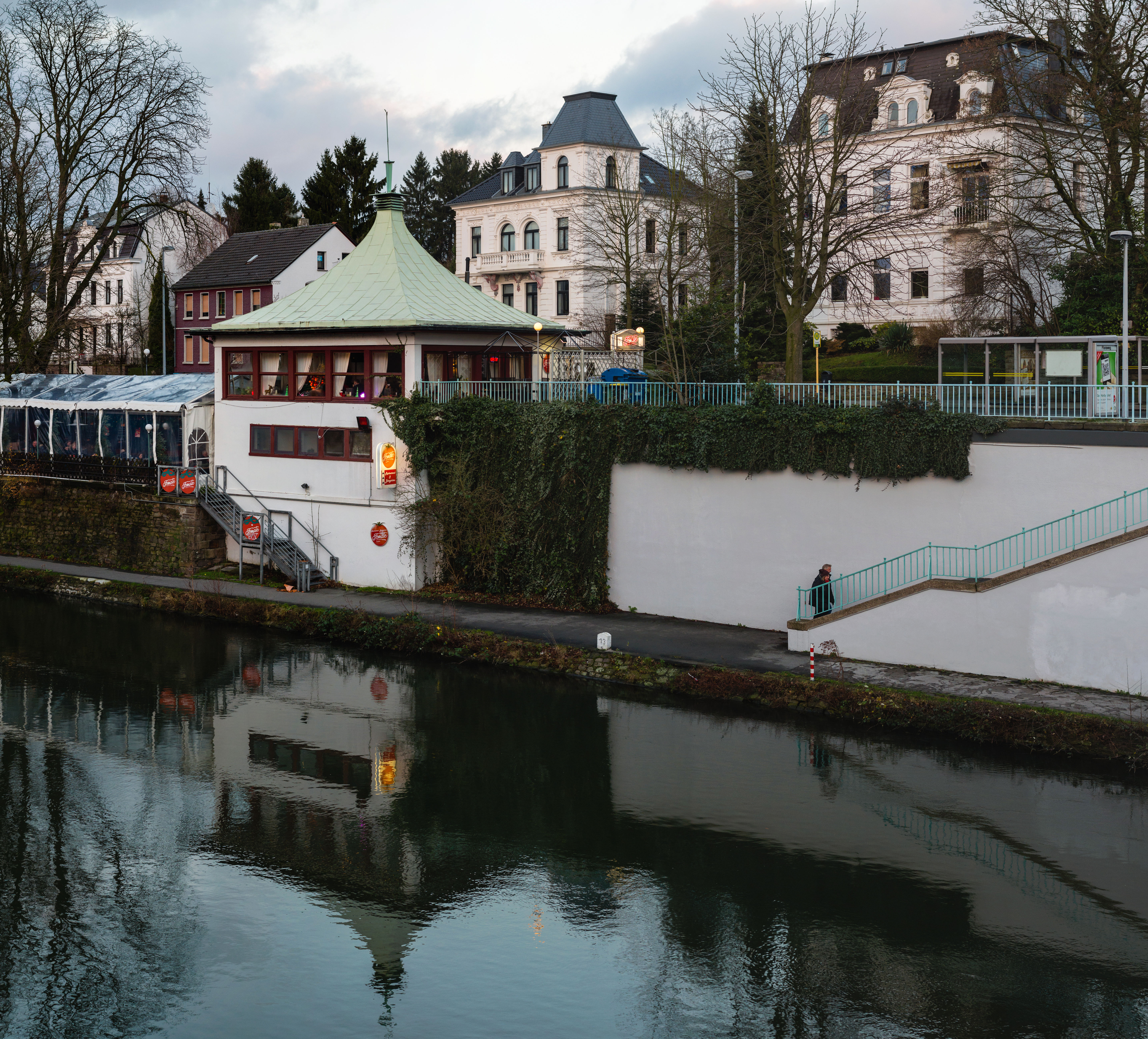 Building ensemble with restaurant Tomate at the towpath (Leinpfad) of the river Ruhr in Mülheim an der Ruhr